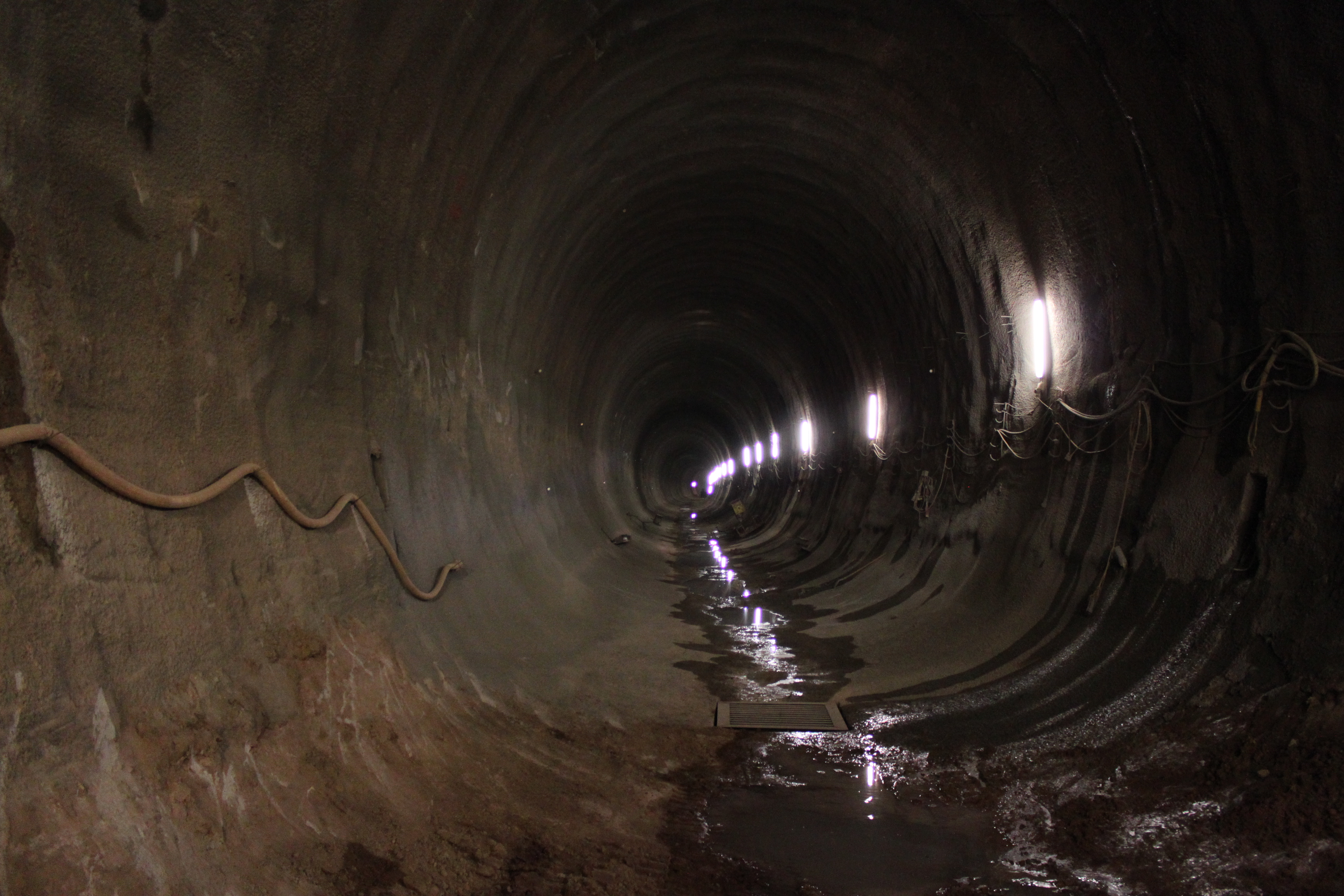 A view on the northern tube of Bibra Tunnel, as seen from cross-cut #6 (3.5 km from the west portal). This picture was taken during construction.